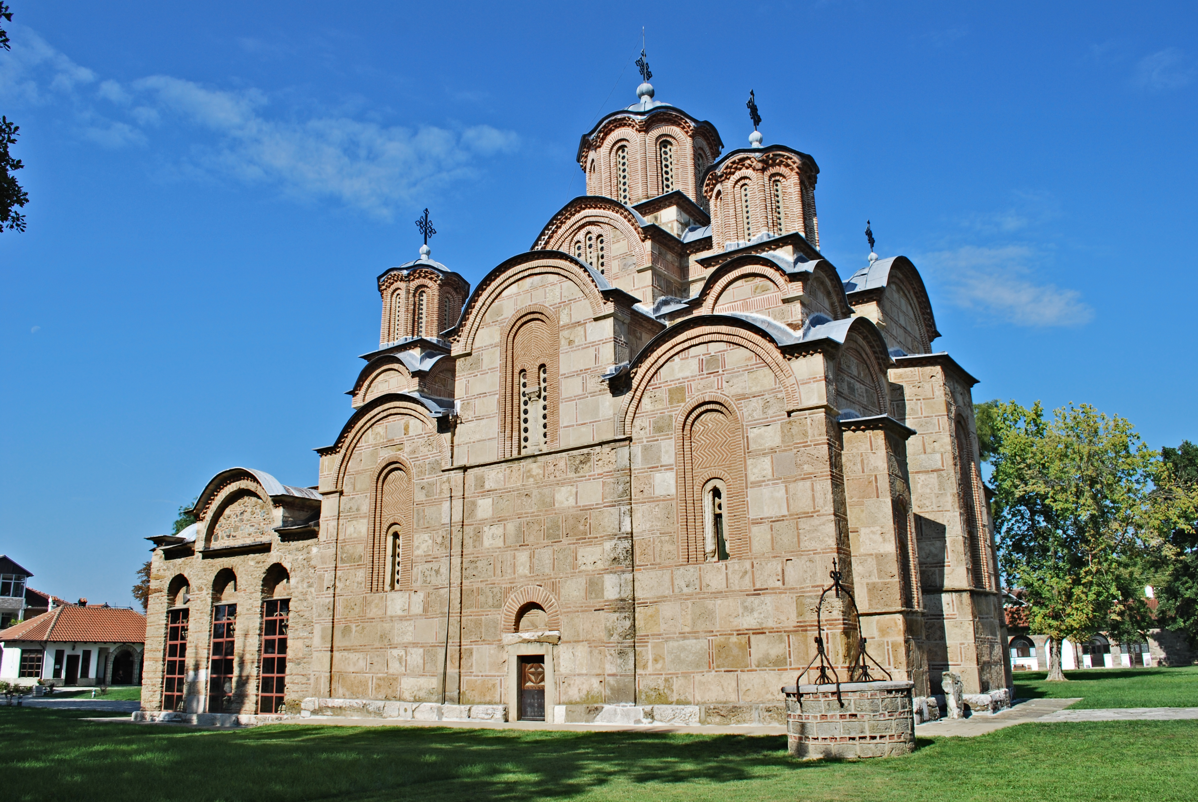 Gračanica (pronounced [ɡratʃǎnitsa]; Serbian: Манастир Грачаница, Manastir Gračanica or Albanian Manastiri i Graçanicës) is a Serbian Orthodox monastery located in Kosovo. It was rebuilt by the Serbian king Stefan Milutin in 1321 on the ruins of a 6th-century early Christian three-naved basilica. Gračanica Monastery was declared a Monument of Culture of Exceptional Importance in 1990, and it is protected by the Republic of Kosovo and considered as a protected monument by the Republic of Serbia because of the unaccepted self declared independence of Kosovo, and on 13 July 2006 it was placed on UNESCO's World Heritage List under the name of Medieval Monuments in Kosovo as an extension of the Visoki Dečani site which was overall placed on the List of World Heritage in Danger.[1][2] The Gračanica Monastery is one of King Milutin's last monumental endowments. It is situated in the municipality of Gračanica, part of the Community of Serb municipalities in Kosovo. It is located 5 km (3.1 mi) from Pristina.[3] The monastery is in the close vicinity of Lipljan (ancient Roman town of Ulpiana), the old residence of bishops.